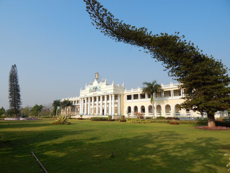 Crawford Hall Mysore